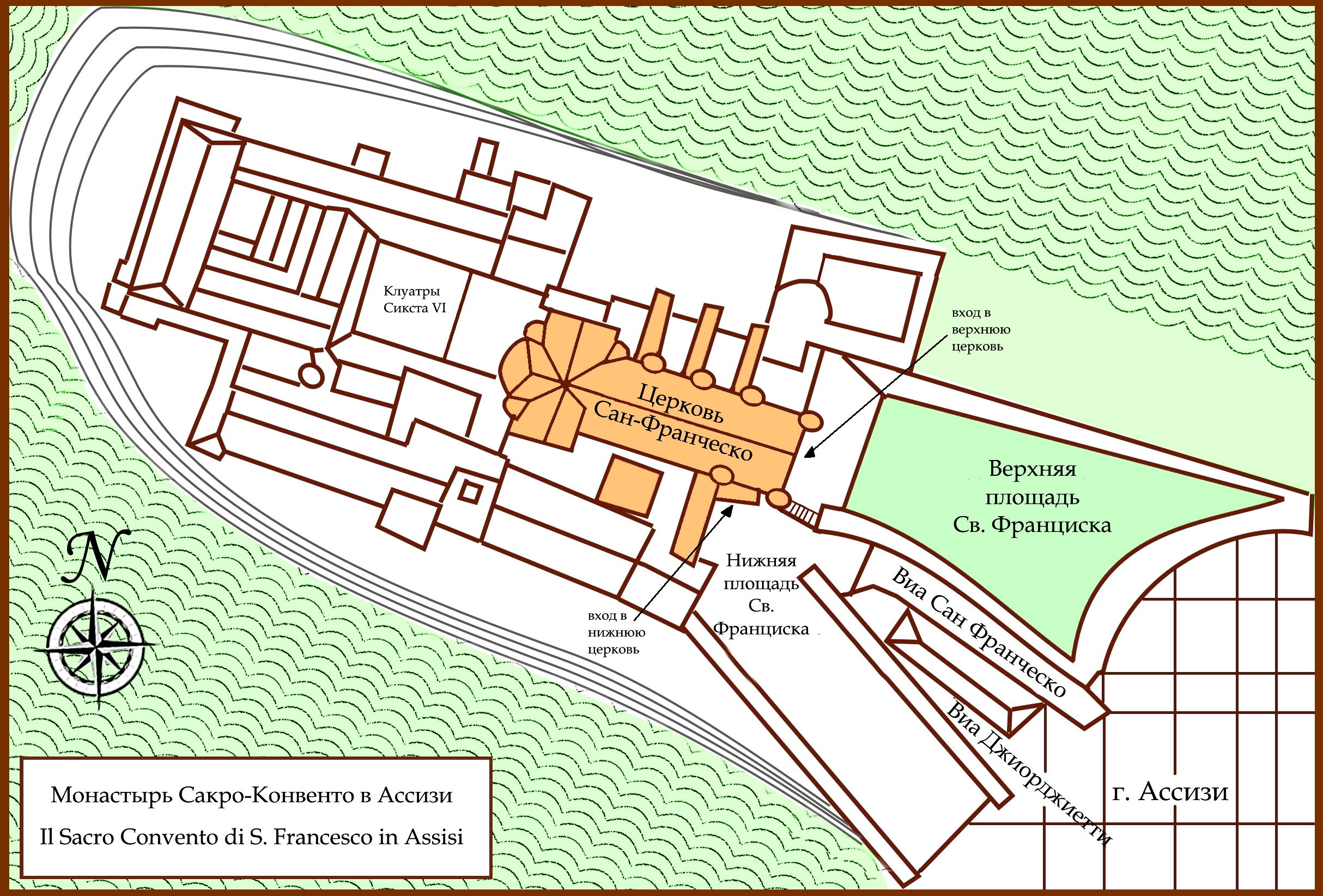 Sacred Convent of Assisi